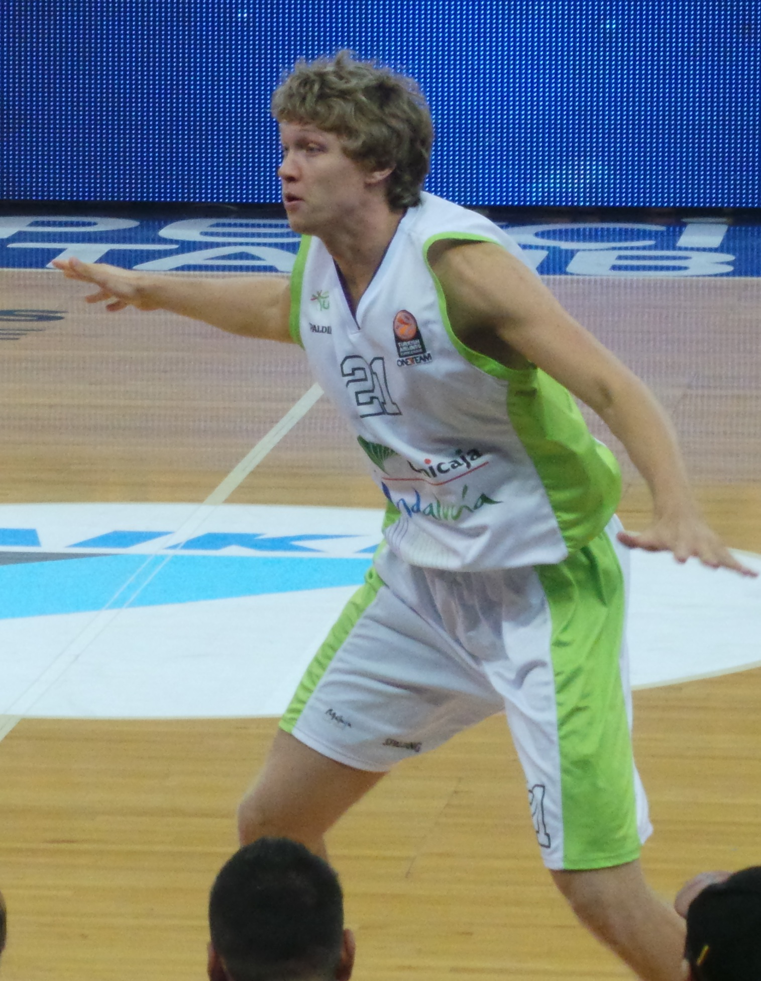 Mindaugas Kuzminskas